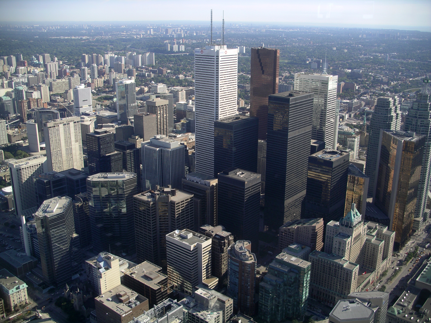 The central business district in Toronto, Canada, as photographed from nearby CN Tower.